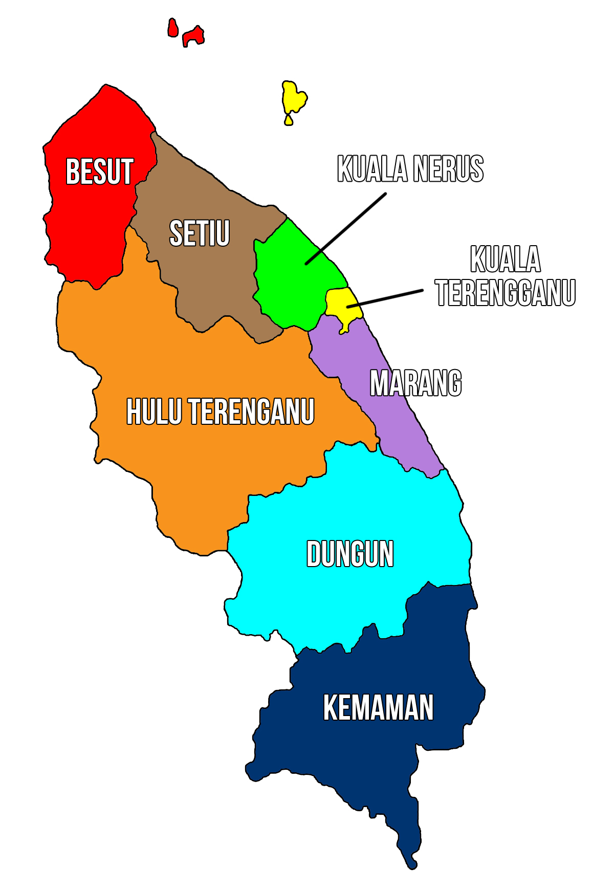 The districts of the state of Terengganu.